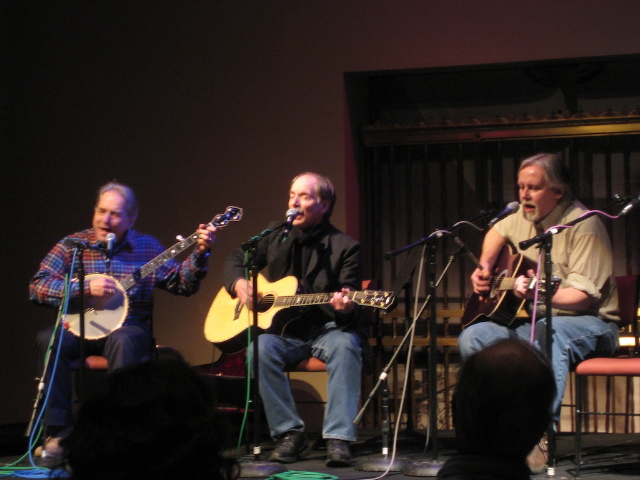 From left: Happy Traum, Artie Traum, & Ed Renehan performing at WAMC-Albany's Linda Norris Auditorium.